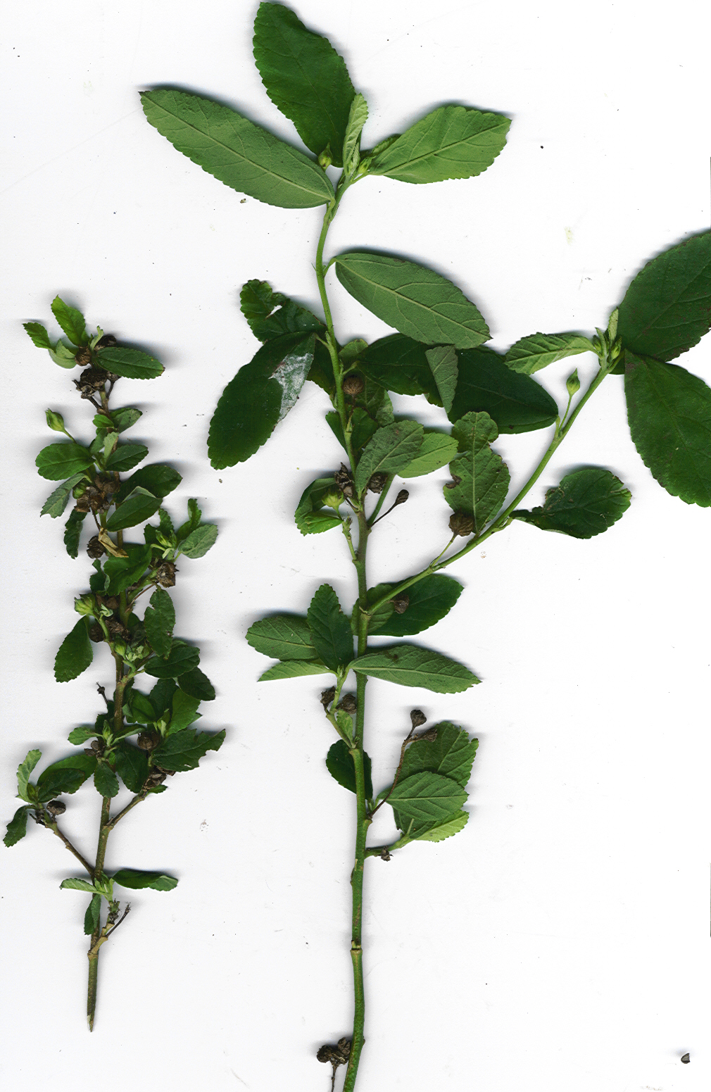 Sida rhombifolia (branch). Location: Maui, Ukumehame